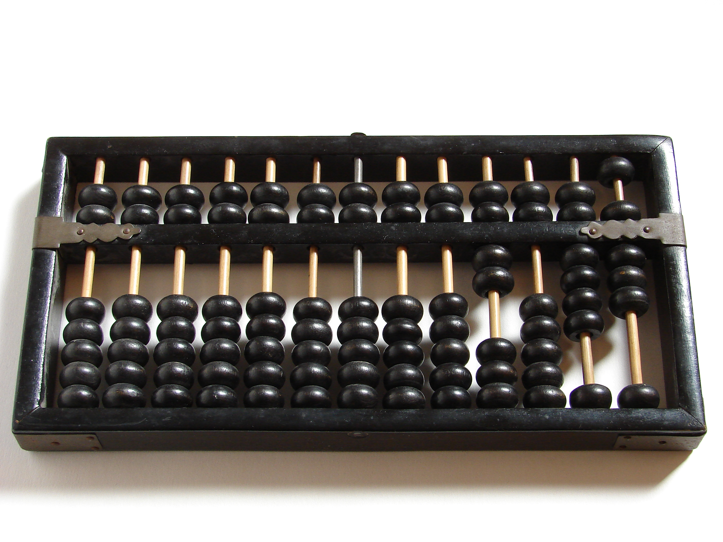 Chinese abacus.